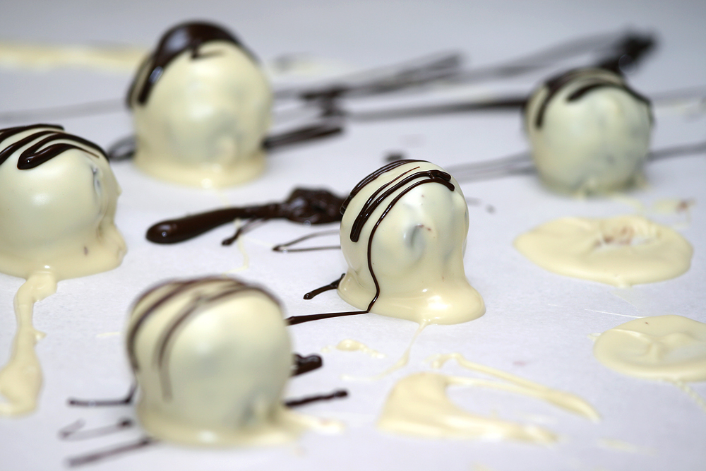 White chocolate truffles.